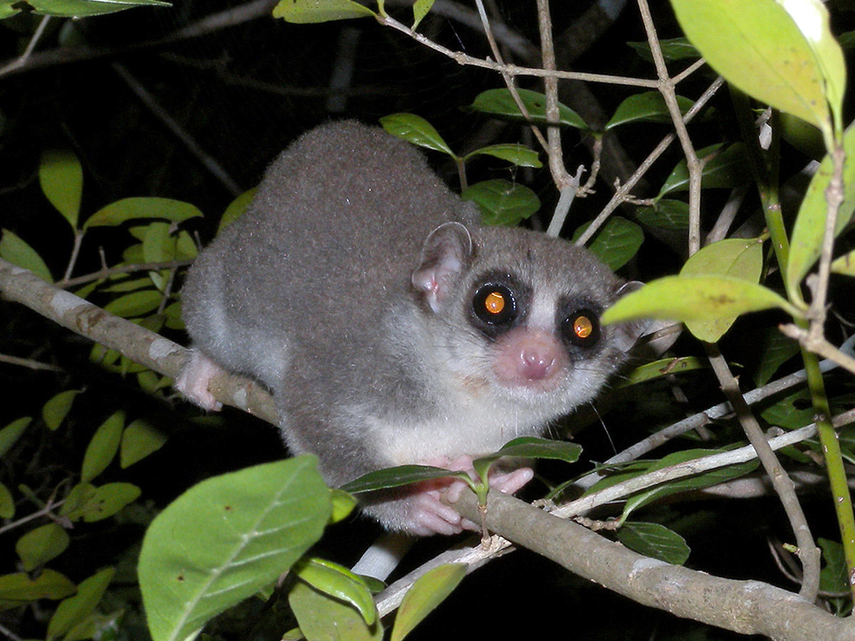 Fat-tailed dwarf lemur (Cheirogaleus medius), Kirindy, Madagascar. A noctural lemur of western deciduous dry forests, the fat-tailed dwarf lemur has the unusual habit of "hibernating" in tree holes for six to eight months during the dry season, relying on fat reserves stored in its tail - hence the name.